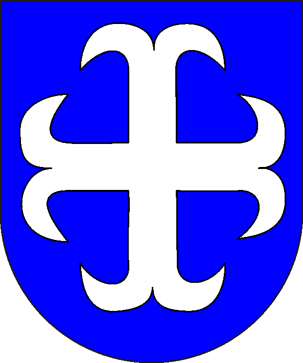 coats of arms of count of Bentinck (lordship)